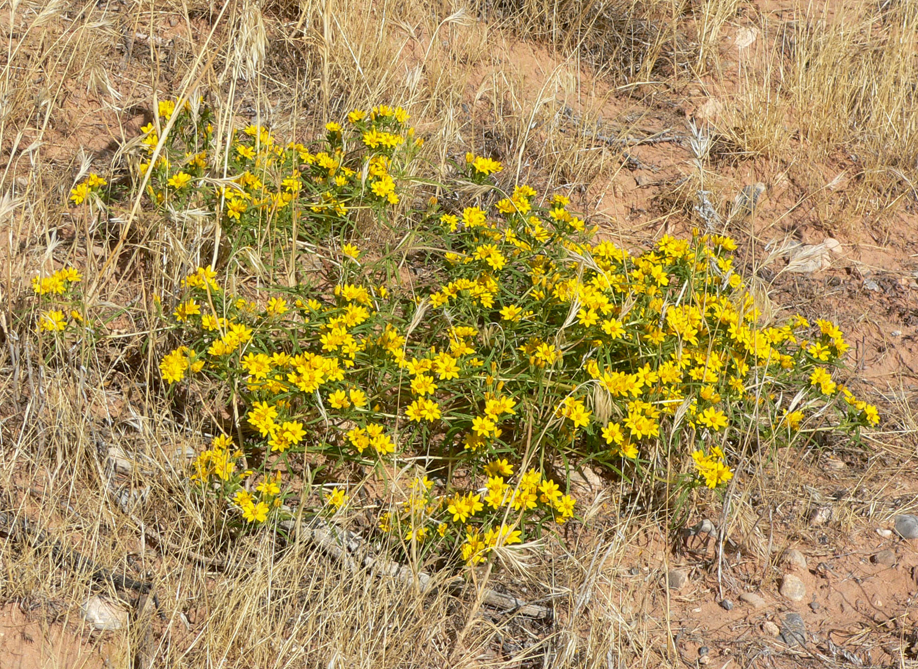 Pectis papposa var. papposa (chinchweed) in Red Rock Canyon, Spring Mountains, southern Nevada